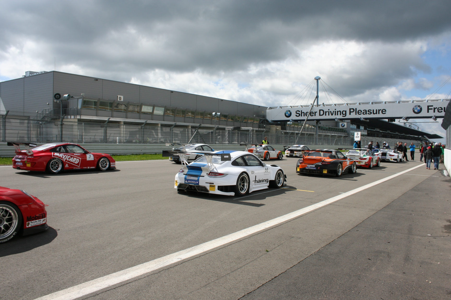 Starting lineup 3 minutes before start at Porsche Super Sports Cup Germany at Nürburgring 2013